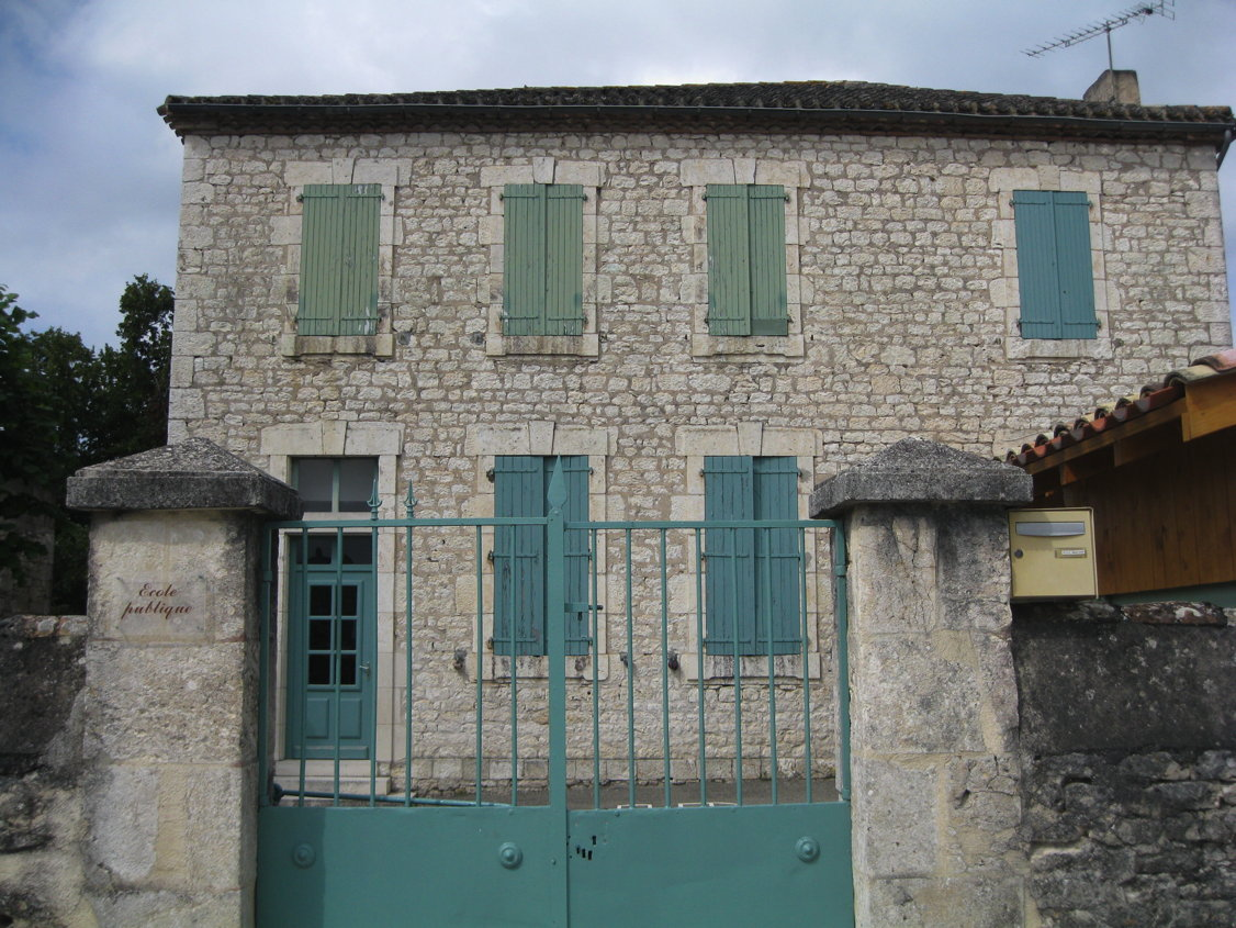 Flaugnac (Lot - France)) : View of the public school